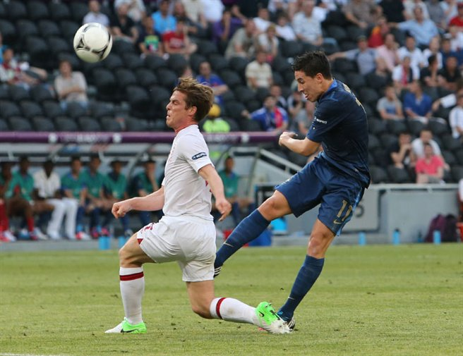 UEFA Euro 2012 match between France and England played in Donetsk at Donbas Arena. Final result was 1:1 (Nasri, Lescott).